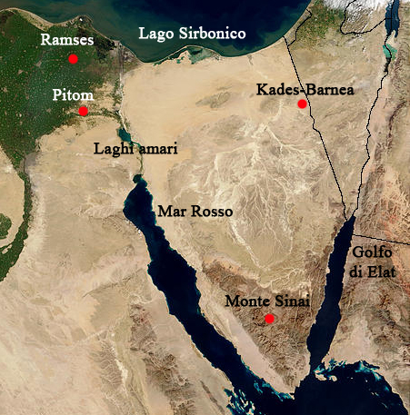 Map of the Exodus